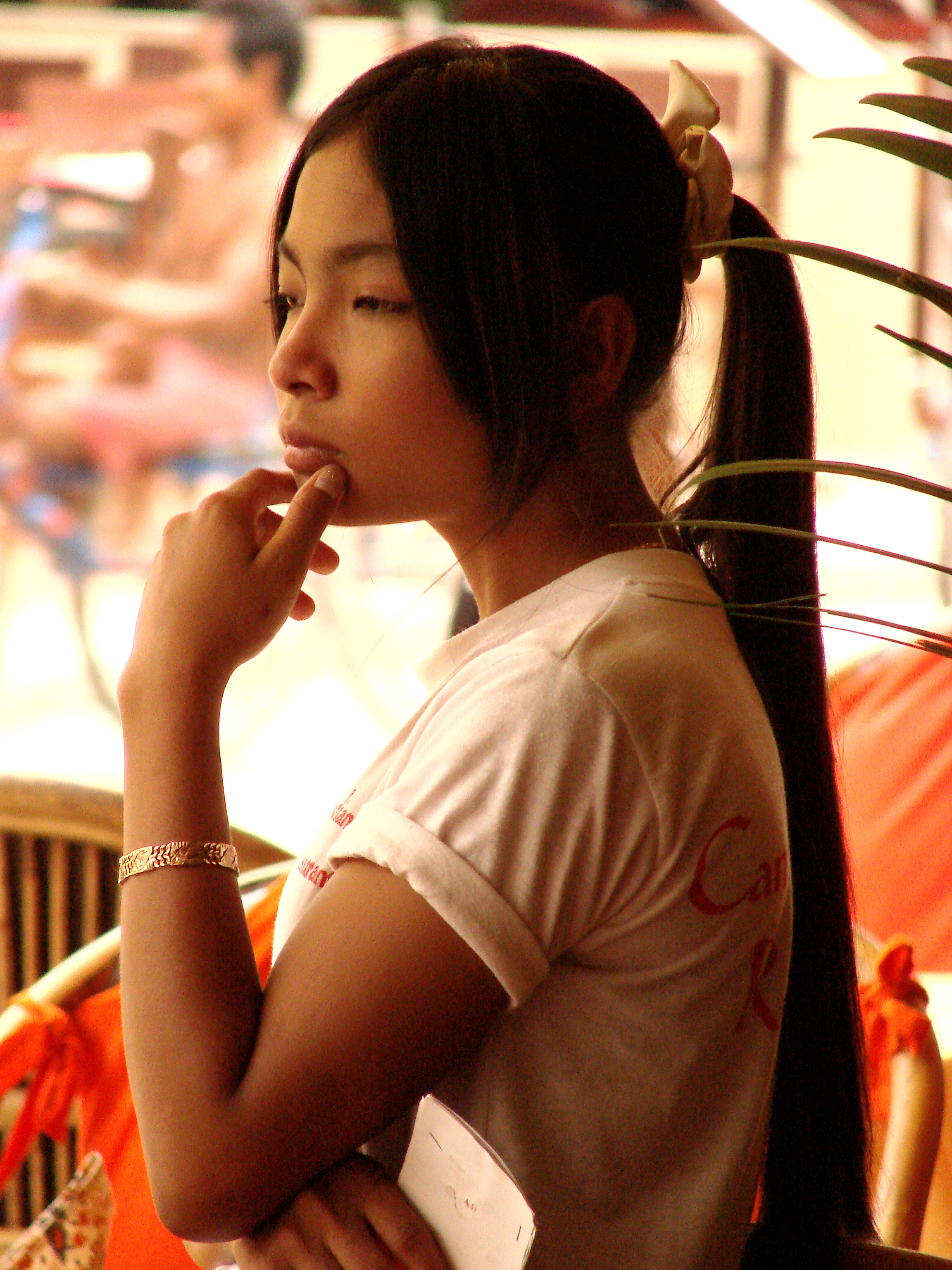 A server in a restaurant waits for customers, Siem Reap, Cambodia.